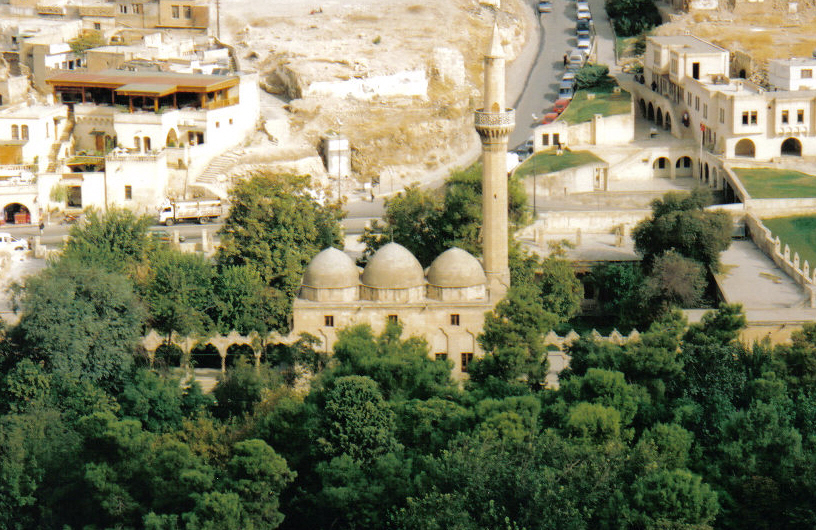 A mosque built on the site where, according to Muslim tradition, the Prophet Abraham was born. (C) Gerry Lynch, 2003.